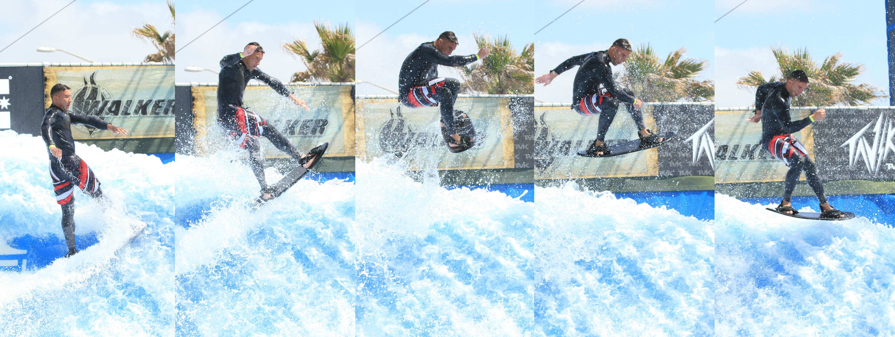 Sgt. Matthew Toyoda, a hazardous material coordinator for Marine Aviation Logistics Squadron 11, gets air during a flowriding competition at the Wavehouse in San Diego, April 25.